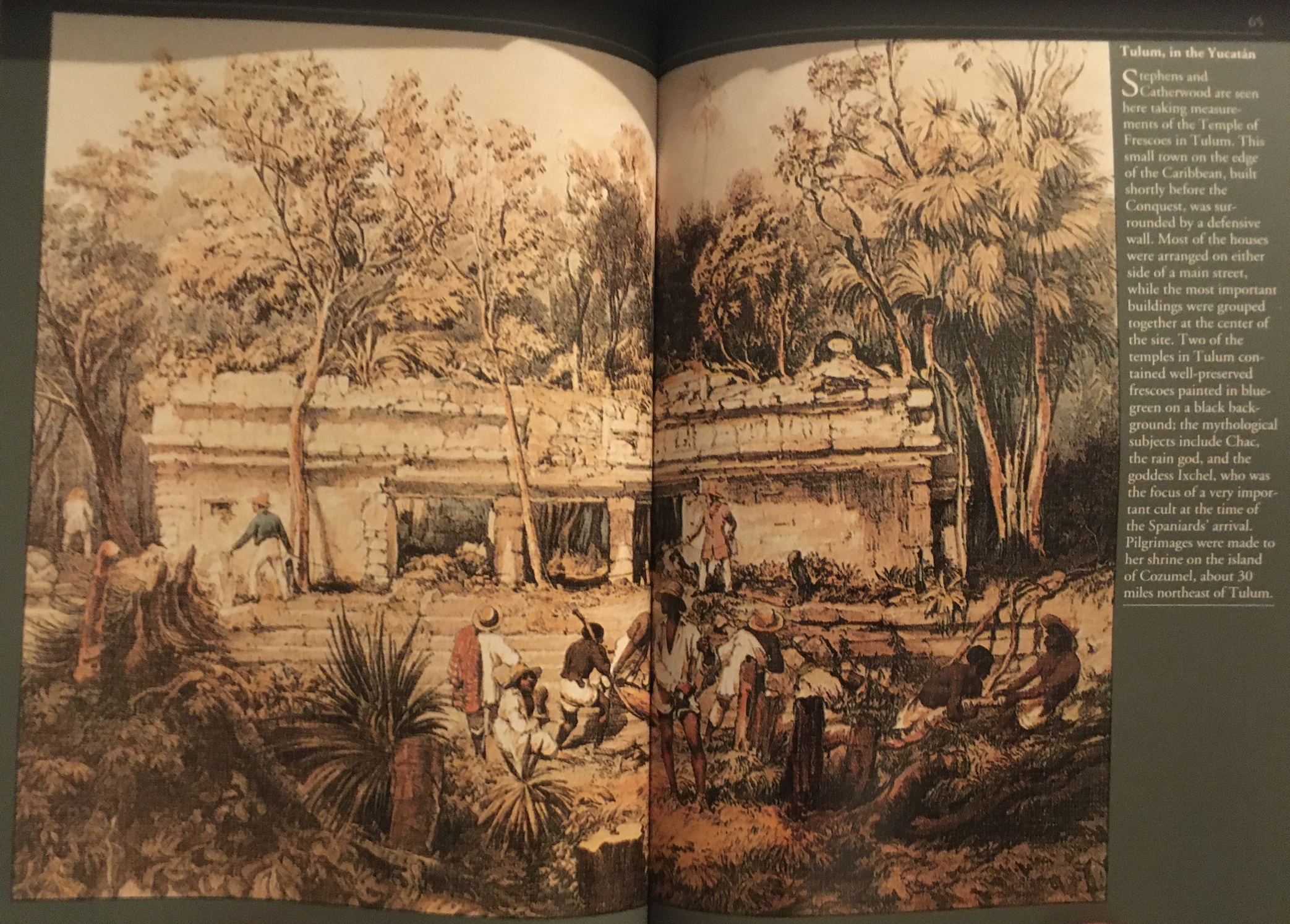 John Lloyd Stephens and Frederick Catherwood taking measurements of the area of the Temple of the Frescos, in Tulum. Lithograph in Views of Ancient Monuments in Central America, Chiapas, and Yucatán, 1844. Image in Lost Cities of the Maya (pp. 64–65) by Claude-François Baudez and Sydney Picasso, “Abrams Discoveries” series, 1992. Short description on page 170. 中文（台灣）: 史蒂芬斯和卡塞伍德在圖隆測量「壁畫神廟」的面積。石版畫，卡塞伍德作。載《中美洲恰帕斯和尤卡坦古代遺物圖鑑》，1844年。——圖片載於「發現之旅」第8冊《馬雅古城：湮沒在森林裡的奇蹟》第64–65頁，圖片說明位於第168頁。臺北：時報文化出版，1994年。